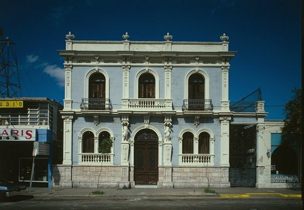 Casa Armstrong-Poventud (Casa Carlos Armstrong) — at 9 Plaza Munoz Rivera, within the Ponce Historic Zone in Ponce, Puerto Rico. 1899 designed by Manuel V. Domenech, on the National Register of Historic Places in Ponce, Puerto Rico. Image (1977): HABS—Historic American Buildings Survey of Puerto Rico, cropped. This file comes from the Historic American Buildings Survey (HABS), Historic American Engineering Record (HAER) or Historic American Landscapes Survey (HALS). These are programs of the National Park Service established for the purpose of documenting historic places. Records consist of measured drawings, archival photographs, and written reports. When reusing please credit: Library of Congress, Prints & Photographs Division, PR,6-PONCE,2-18 This tag does not indicate the copyright status of the attached work. A normal copyright tag is still required. See Commons:Licensing. This work is in the public domain in the United States because it is a work prepared by an officer or employee of the United States Government as part of that person’s official duties under the terms of Title 17, Chapter 1, Section 105 of the US Code. Note: This only applies to original works of the Federal Government and not to the work of any individual U.S. state, territory, commonwealth, county, municipality, or any other subdivision. This template also does not apply to postage stamp designs published by the United States Postal Service since 1978. (See § 313.6(C)(1) of Compendium of U.S. Copyright Office Practices). It also does not apply to certain US coins; see The US Mint Terms of Use. This file has been identified as being free of known restrictions under copyright law, including all related and neighboring rights.